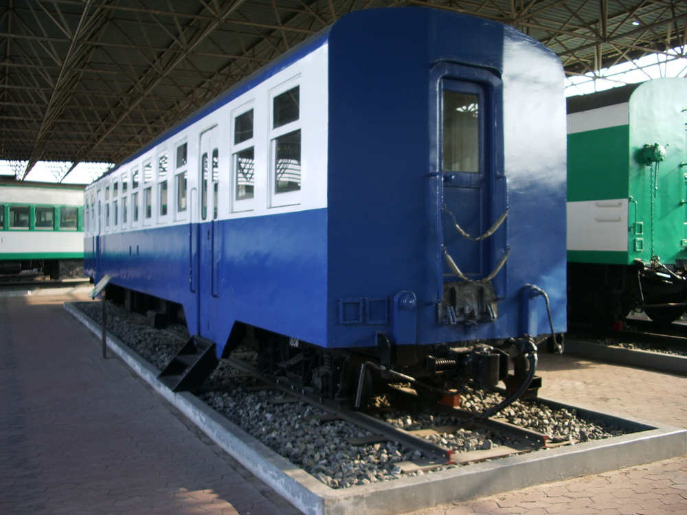 Seen at Uiwang Rail Museum. This train, built in 1964, served on South Korea's only narrow-gauge line, the Suwon-Incheon Line, until 1987. The Suwon-Incheon Line, closed in 1995 and partially run as a standard-gauge line since 1988, is being rebuilt in full as a conventional 1,435mm gauge line, and the open segments host portions of Seoul Subway Line 4 service. The full line, to be shared by trains from Bundang Line and Line 4 as well as dedicated Suwon-Incheon Line trains, will be re-opened in 2016.